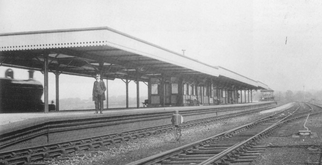 Hazel Grove (Midland) railway station c1905